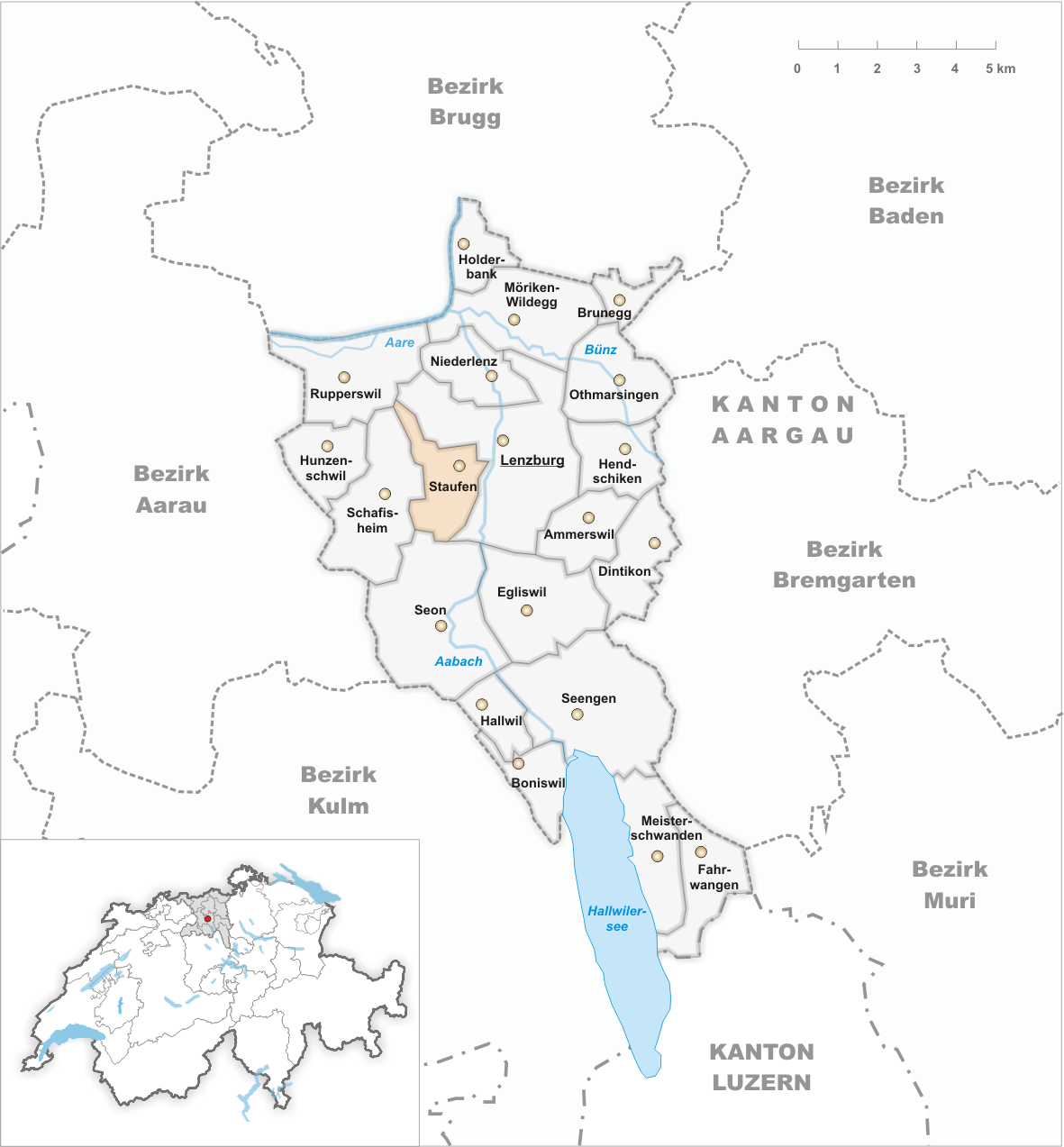 Municipality Staufen